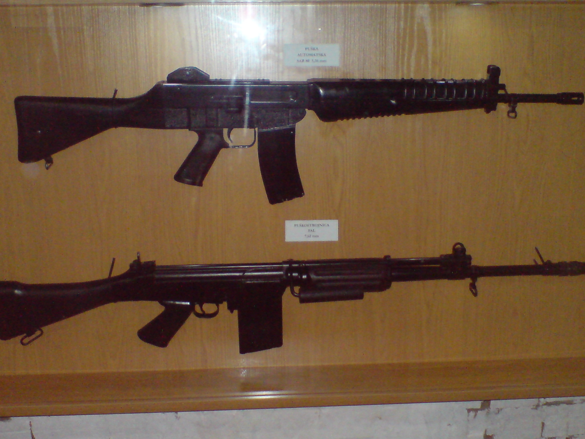 Top: SAR-80, bottom: FN FAL